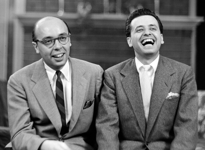 Portrait of Ahmet M. Ertegun and Nesuhi Ertegun, Turkish Embassy(?), Washington, D.C., 194-.